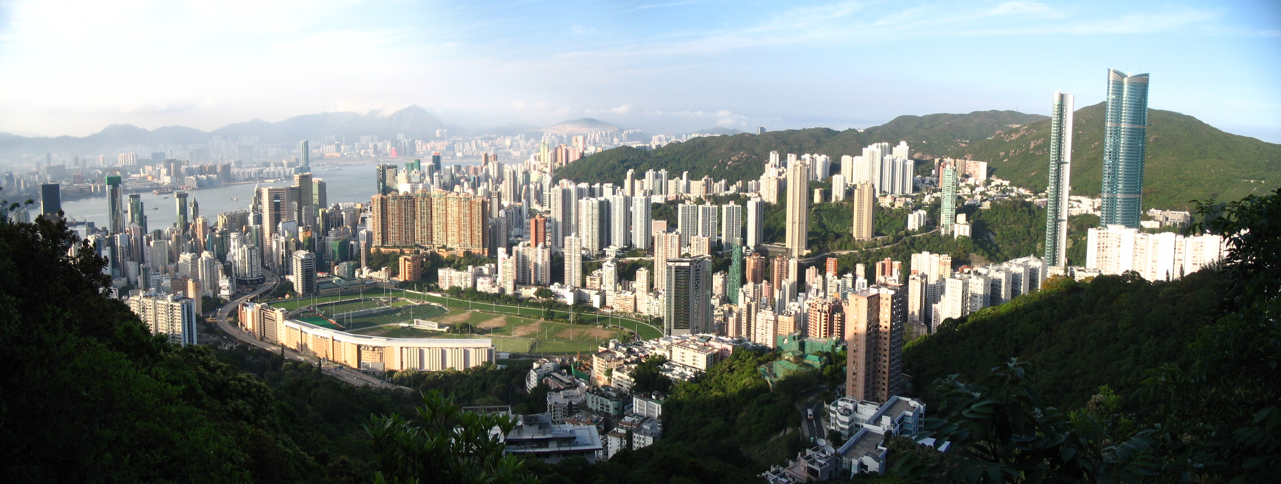 Panoramic photo of Happy Valley, combined from 2465673846, 2464845209 and 2464846841